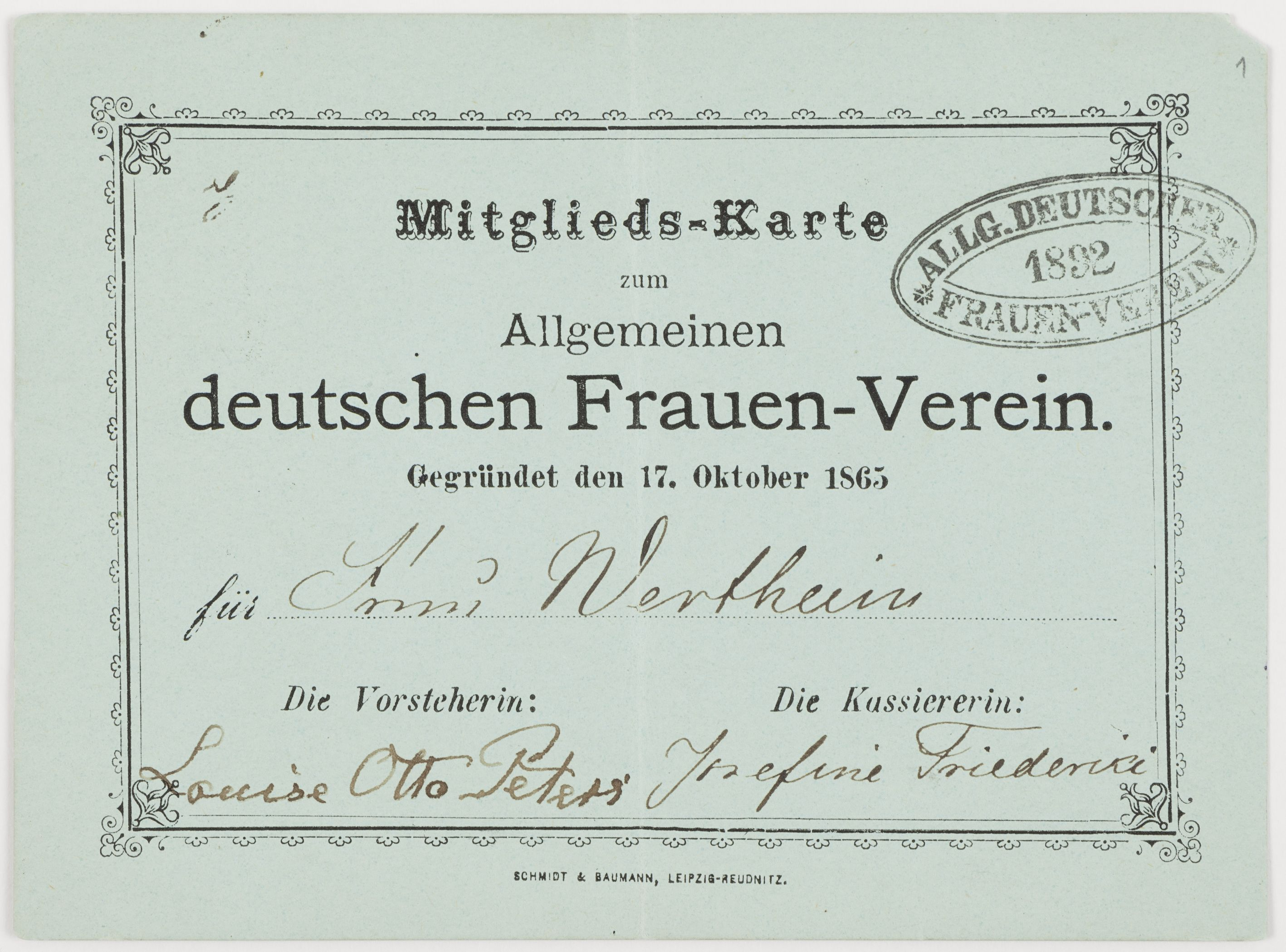 Membership card of Allgemeiner deutscher Frauenverein (Universal German Women's Association / German Association of Female Citizens), paper, 1892. Photo of card in repository of Archiv der deutschen Frauenbewegung (Archive of German Women's Movement), Kassel, Signature ST-36; 1-5/6. Photographer: Horst Ziegenfusz on behalf of Historisches Museum Frankfurt (Historical Museum Frankfurt). Published in Dorothee Linnemann (ed.): Damenwahl! 100 Jahre Frauenwahlrecht. Begleitbuch zur Ausstellung. Societäts-Verlag, Frankfurt am Main 2018, ISBN 978-3-95542-306-3, p. 56.